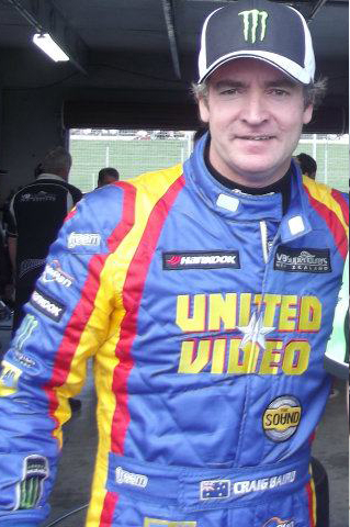 Craig Baird Picture with Fan in 2012 V8 SuperTourers